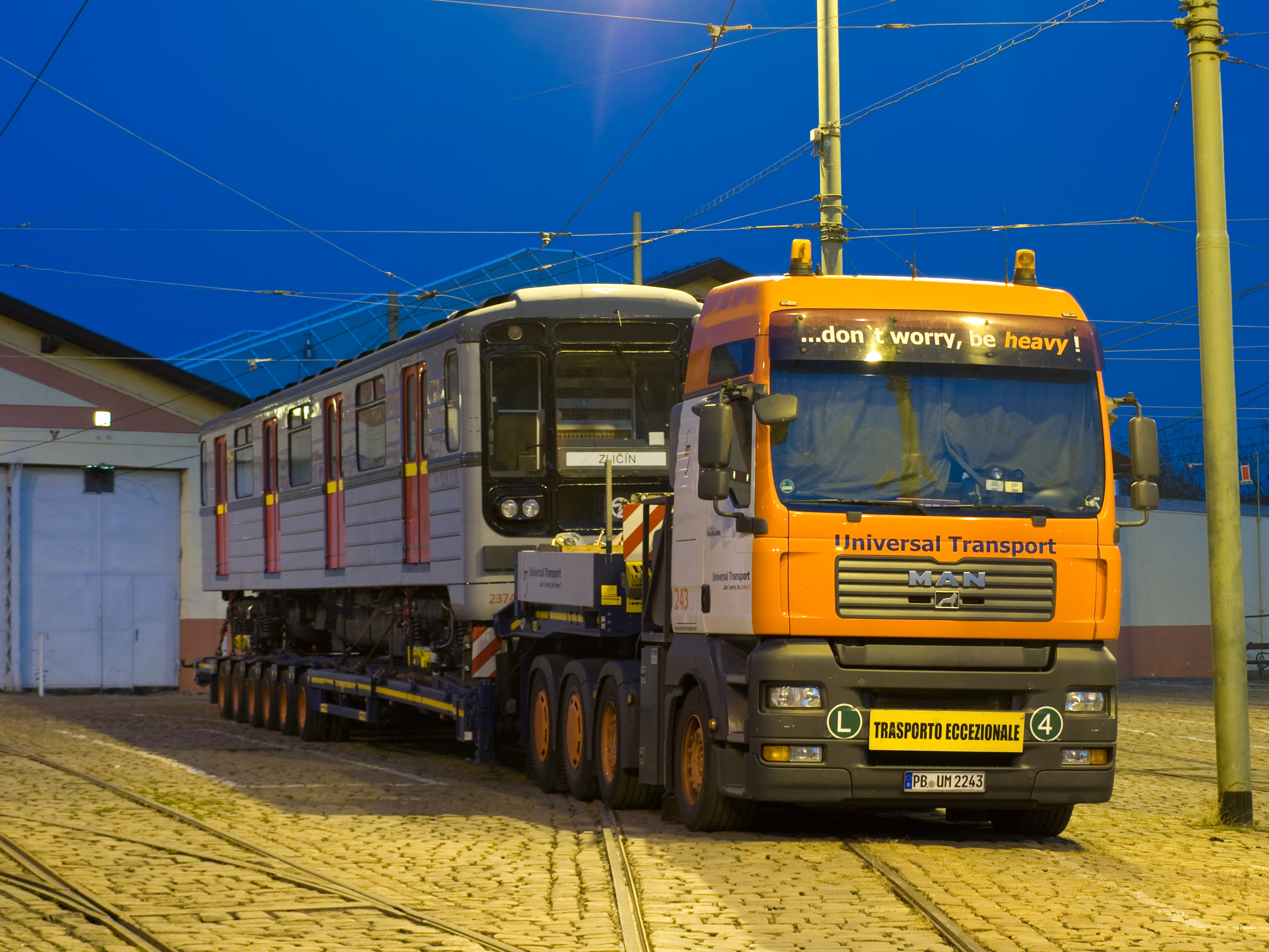 Metro car 81-71 on track in public transport museum in Střešovice, Prague